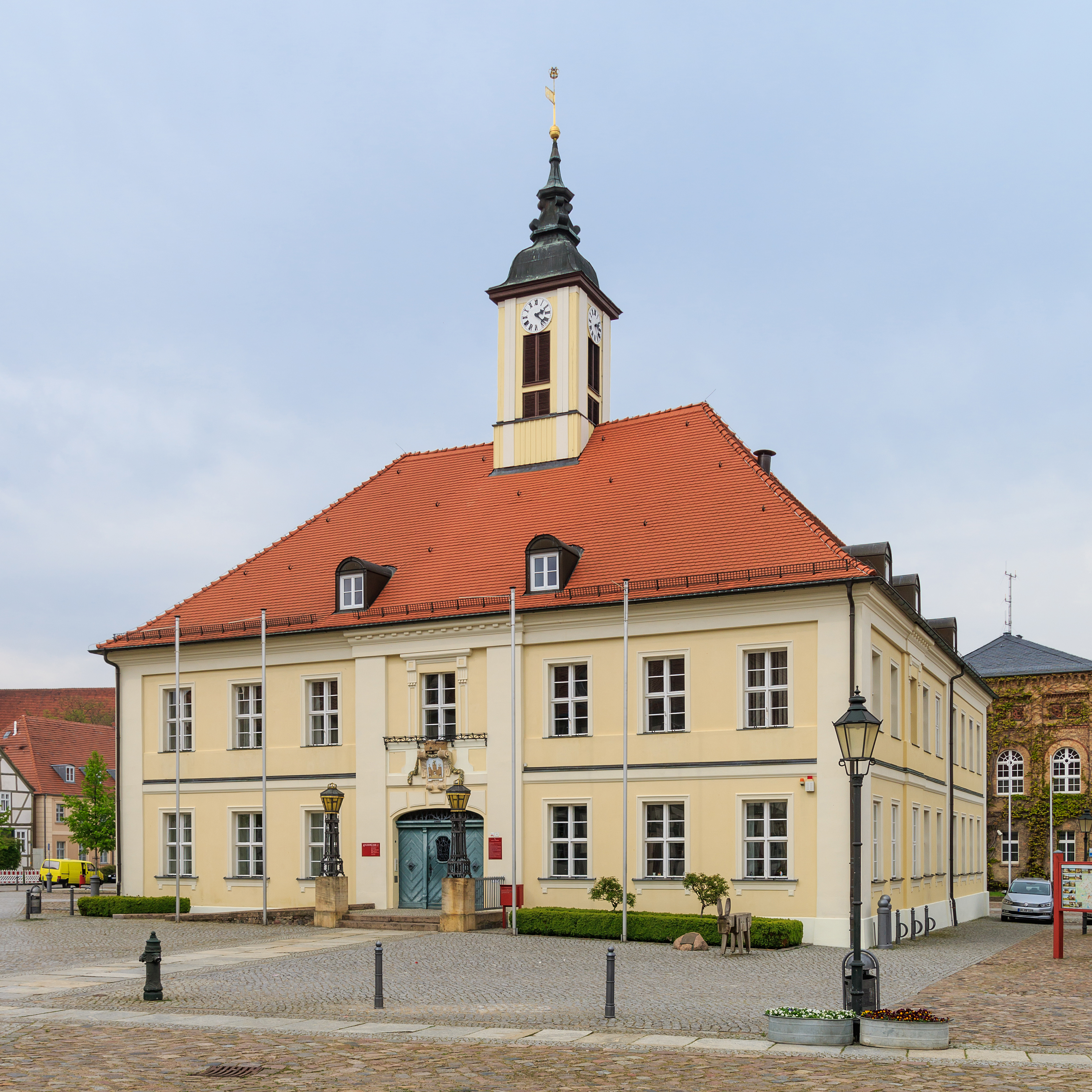 Town hall in Angermünde (Brandenburg/Germany)